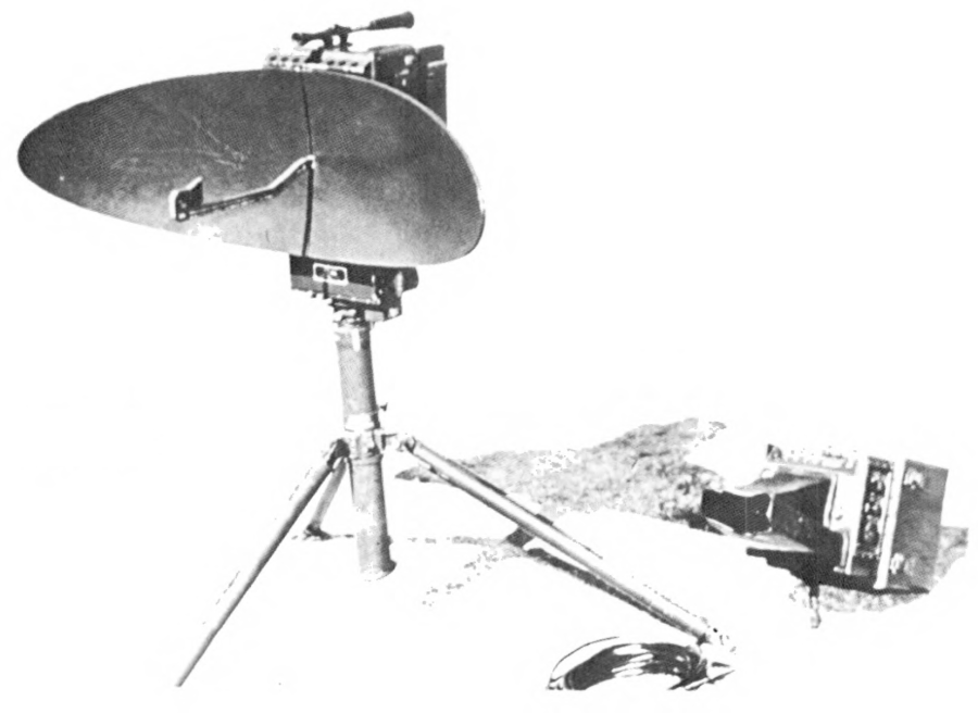 AN/PPS-5A Ground Surveillance Radar